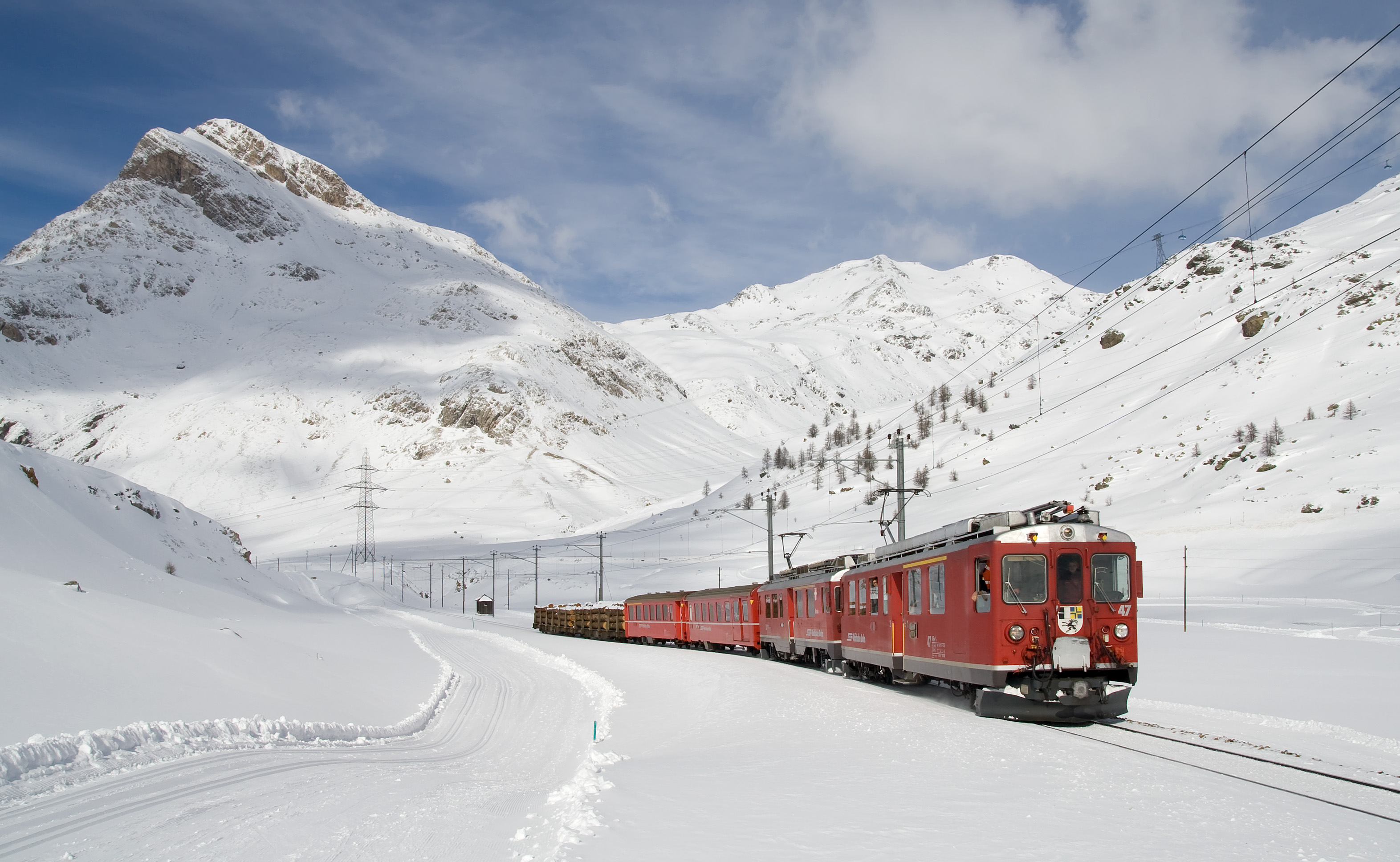 Local train on the Bernina line between Lagalb and Ospizio Bernina pulled by two ABe 4/4 multiple units (an ABe 4/4 II leading an ABe 4/4 III). The two multiple units have excess power with only two passenger cars, so some freight is carried along.